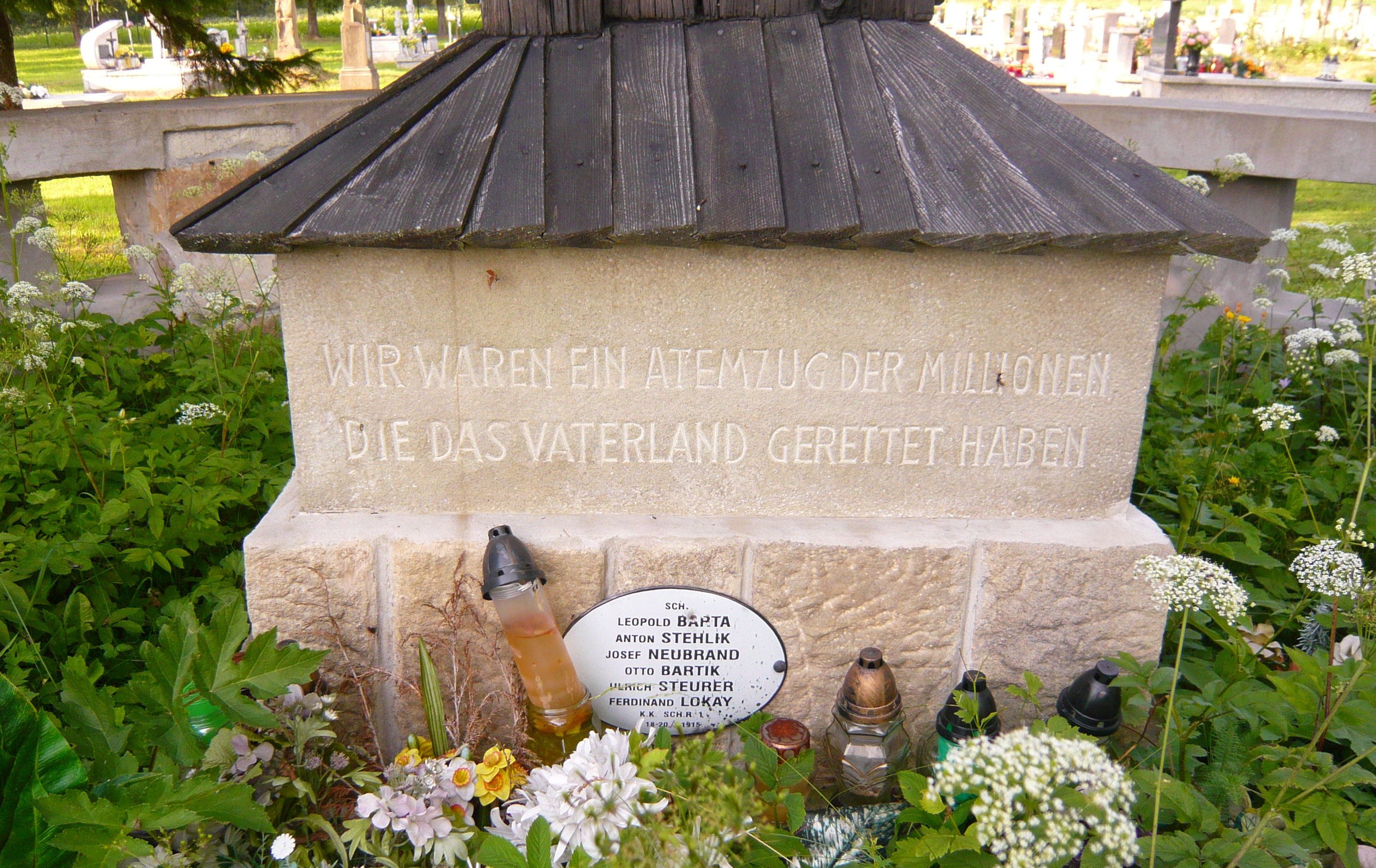 World War I Cemetery nr 56 in Smerekowiec